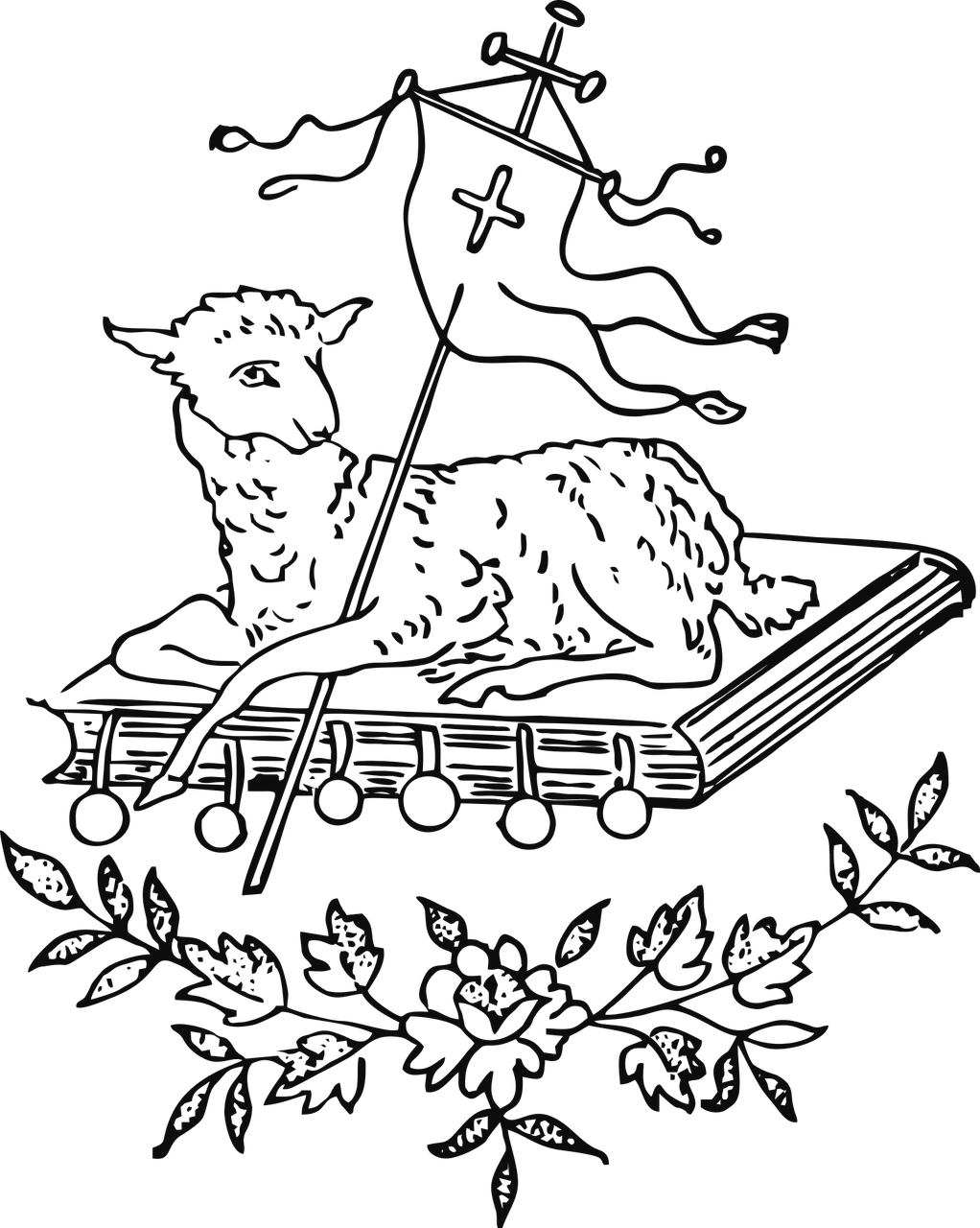 Agnus Dei